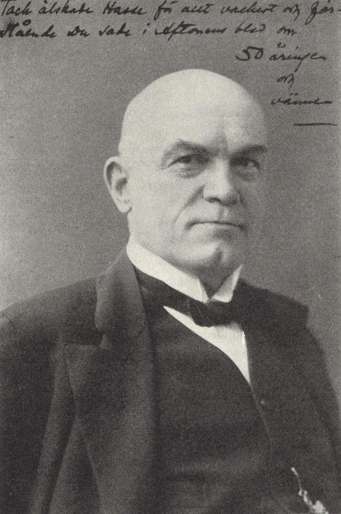 Björn Halldén (known as "Nalle Halldén"; 1862-1935), Swedish composer, conductor and orchestra leader. Photo dedicated to editor Hasse Zetterström in connection with Halldén's 50th birthday.